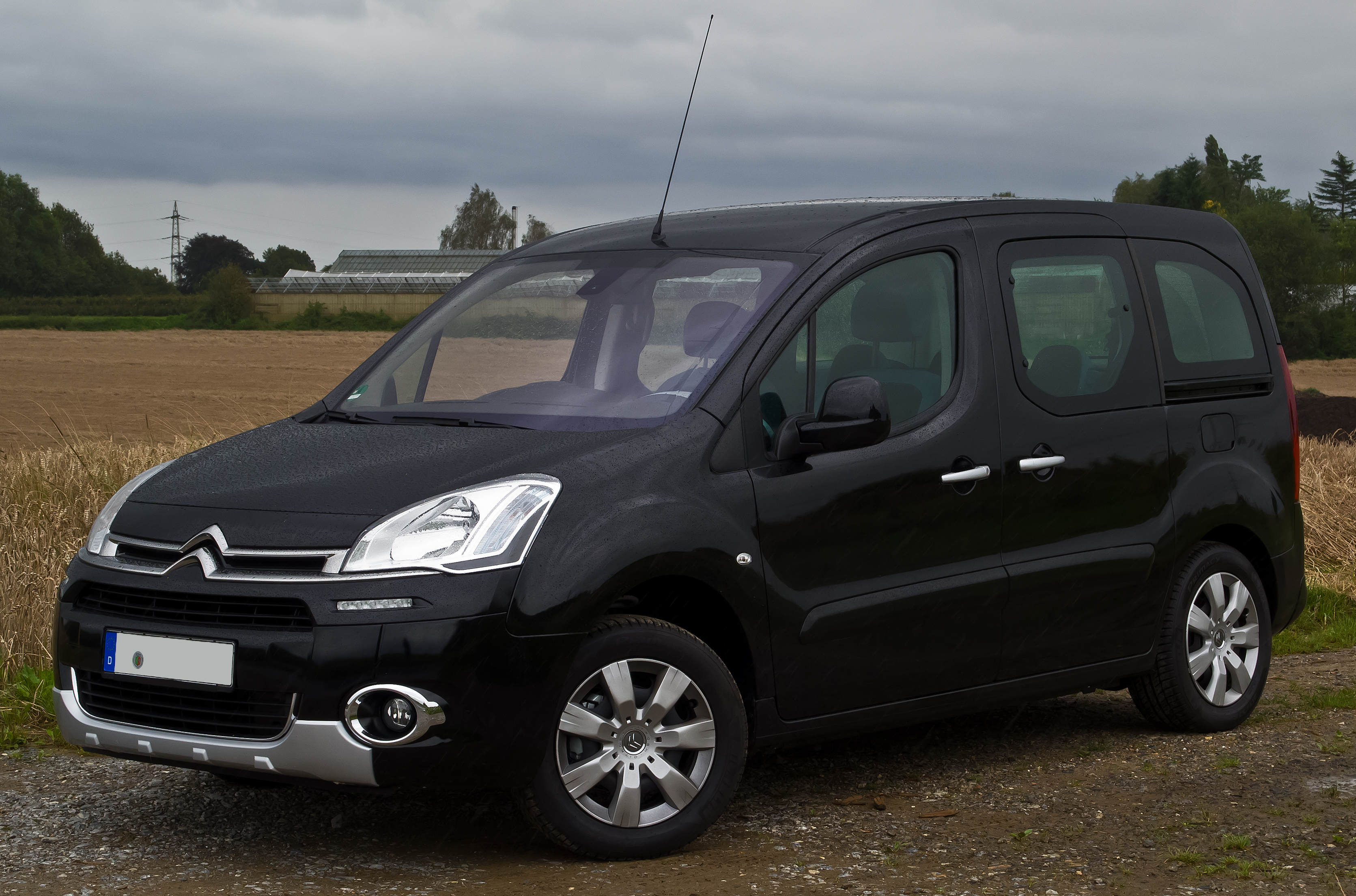 Citroën Berlingo Multispace VTi 95 Selection (II, Facelift)